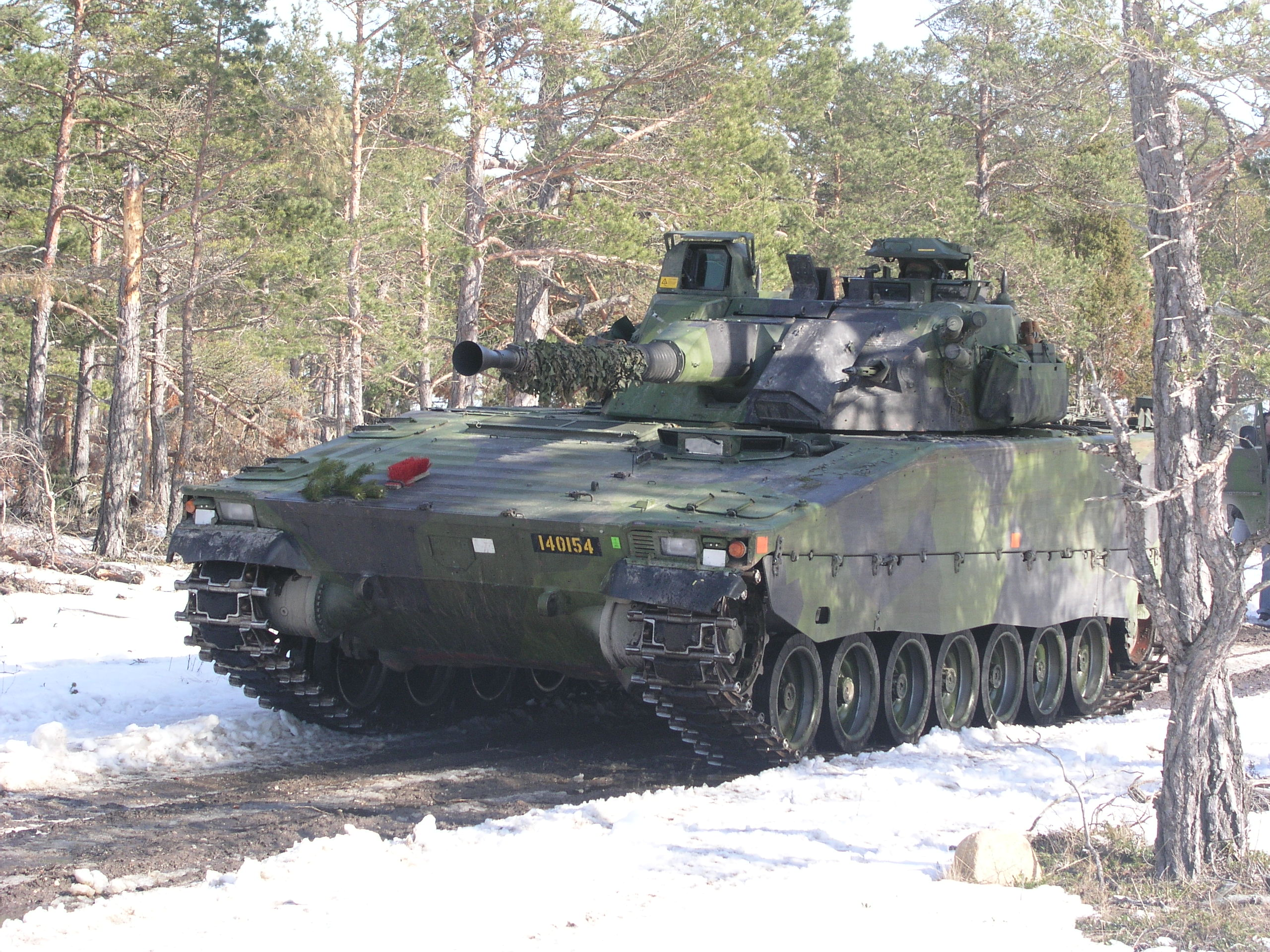 A Swedish Combat Vehicle 9040A. Photo taken by BS from P18 in 2005, and therefore free to use.